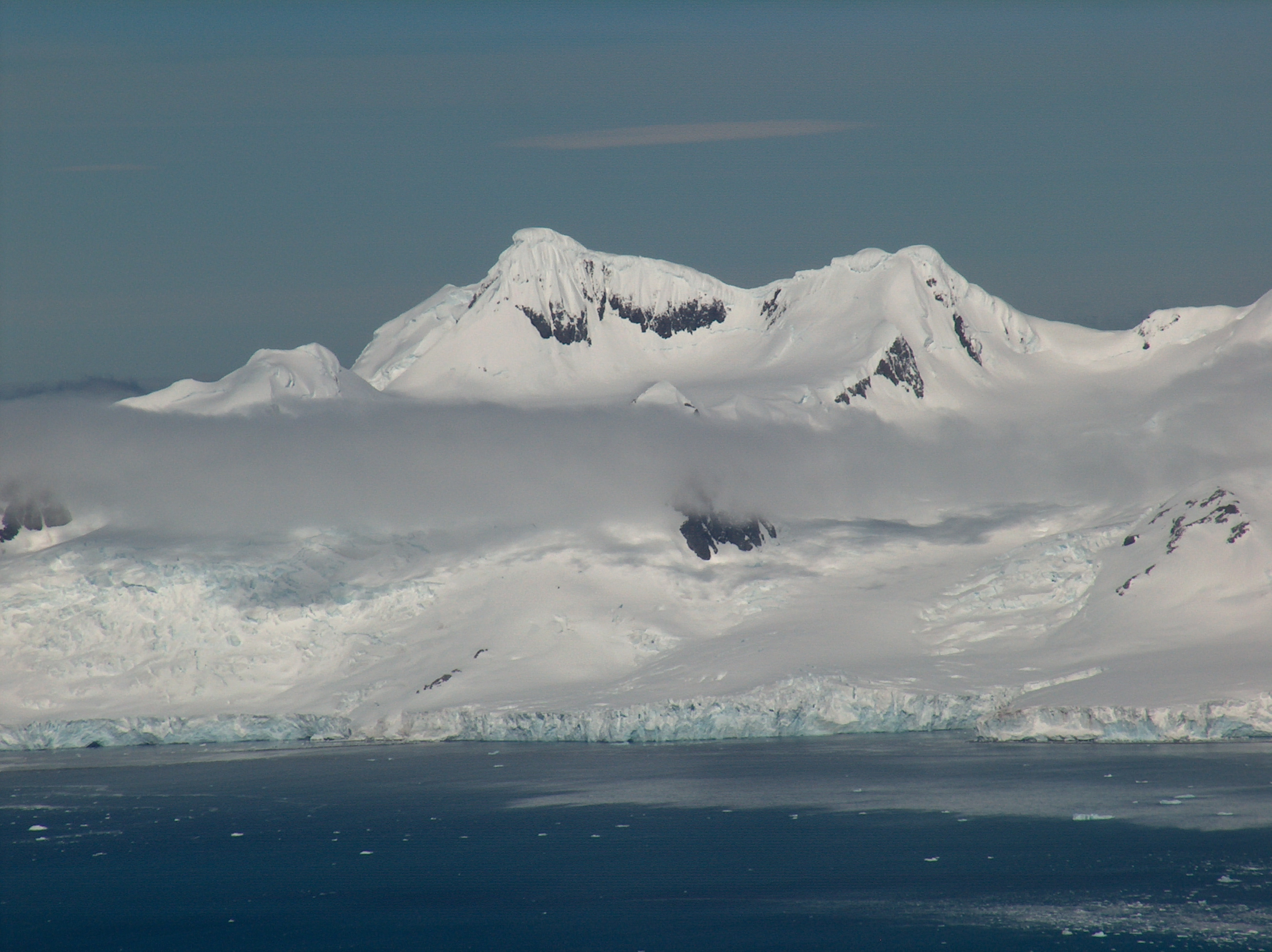 Elena Peak and Yavorov Peak in Tangra Mountains, Antarctica from Miziya Peak.